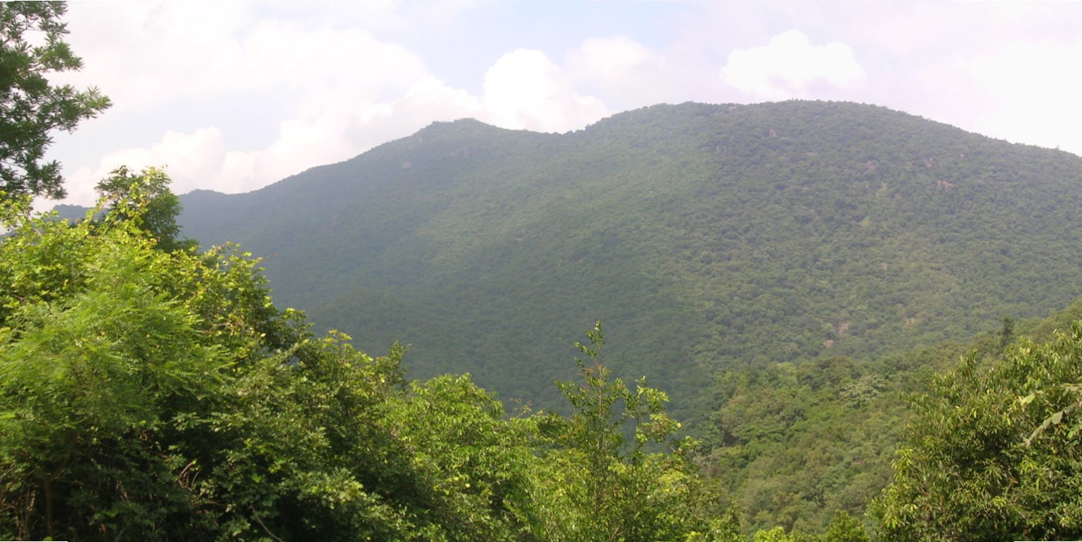 Javadi Hills, Tamil Nadu on the Polur route